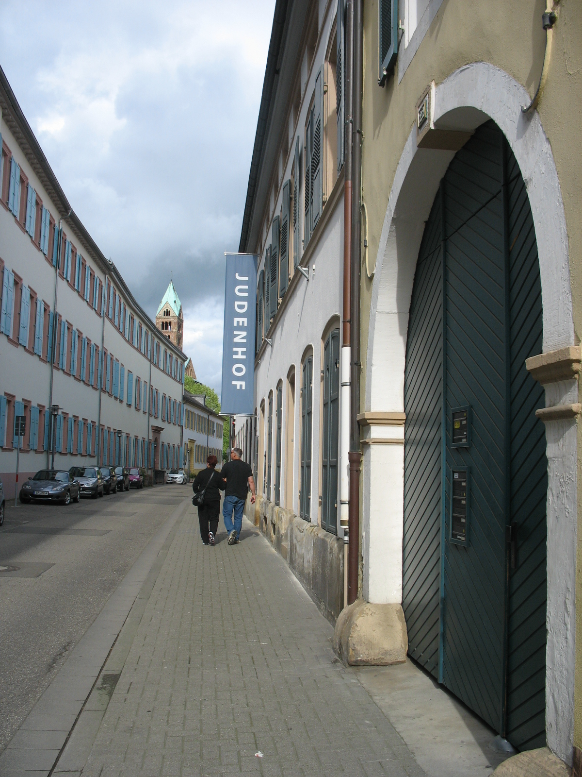 Speyer (GERMANY) The Jewish street